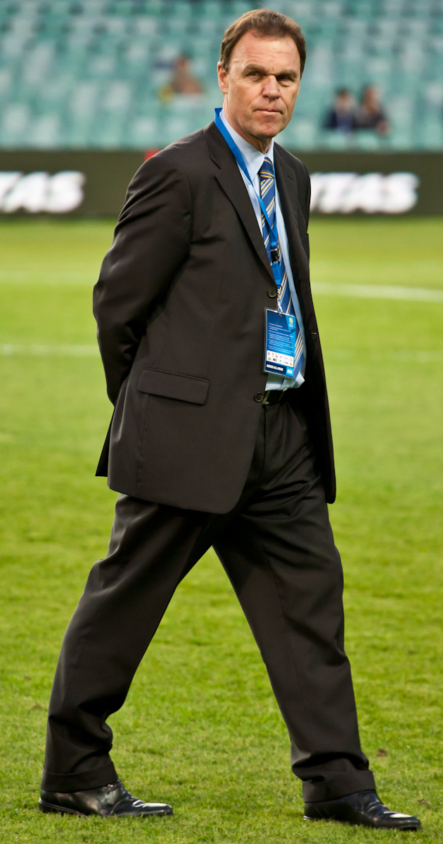 Holger Osieck coaching the Australian national football team in a friendly match against Paraguay at the Sydney Football Stadium.